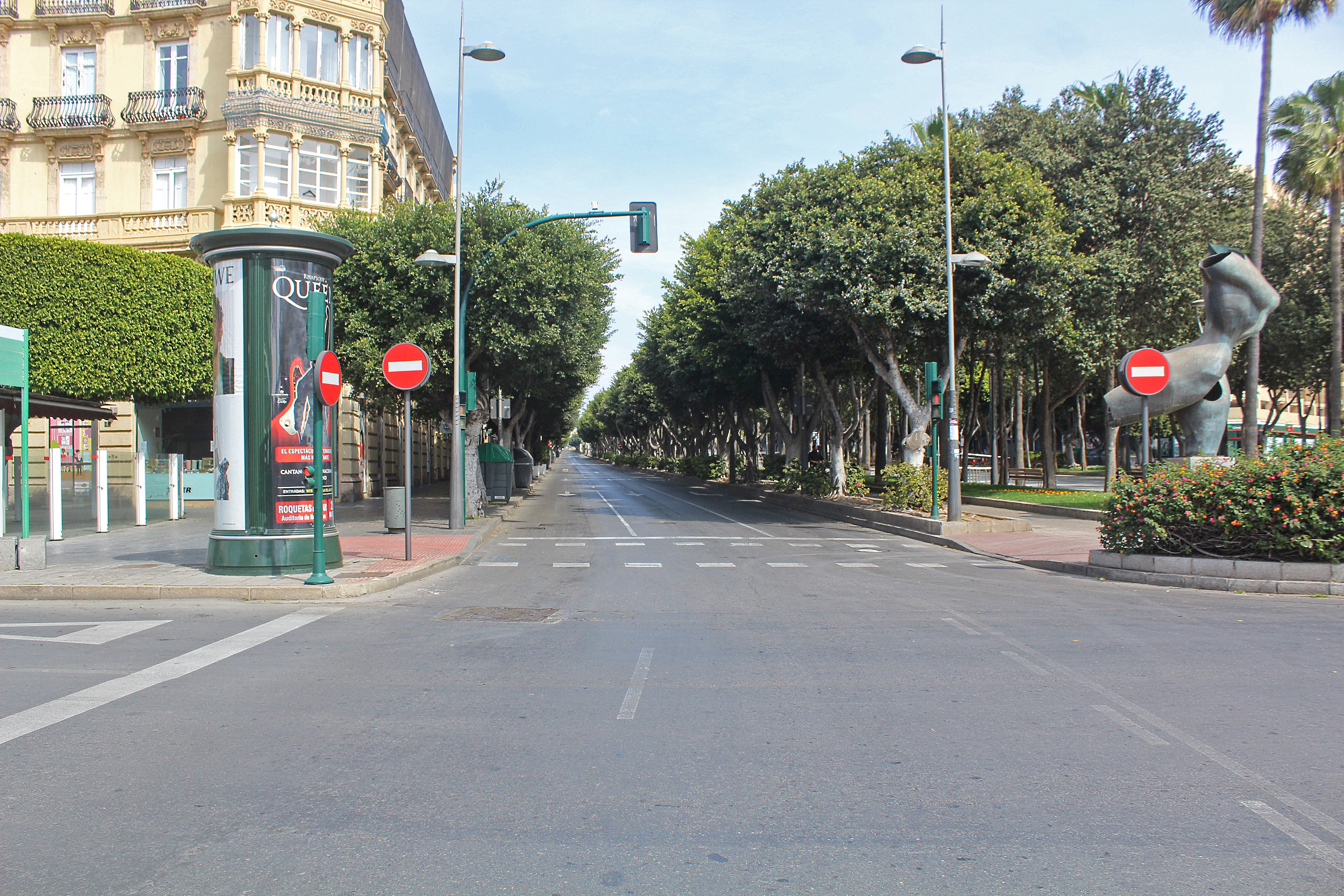 Federico García Lorca Avenue, Almería, Spain. Empty as a result of the quarantine decreed in Spain because of the Coronavirus of 2020.